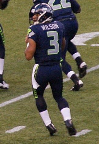 QB Russell Wilson in the Pocket. Century Link Field, Seattle, Washington.